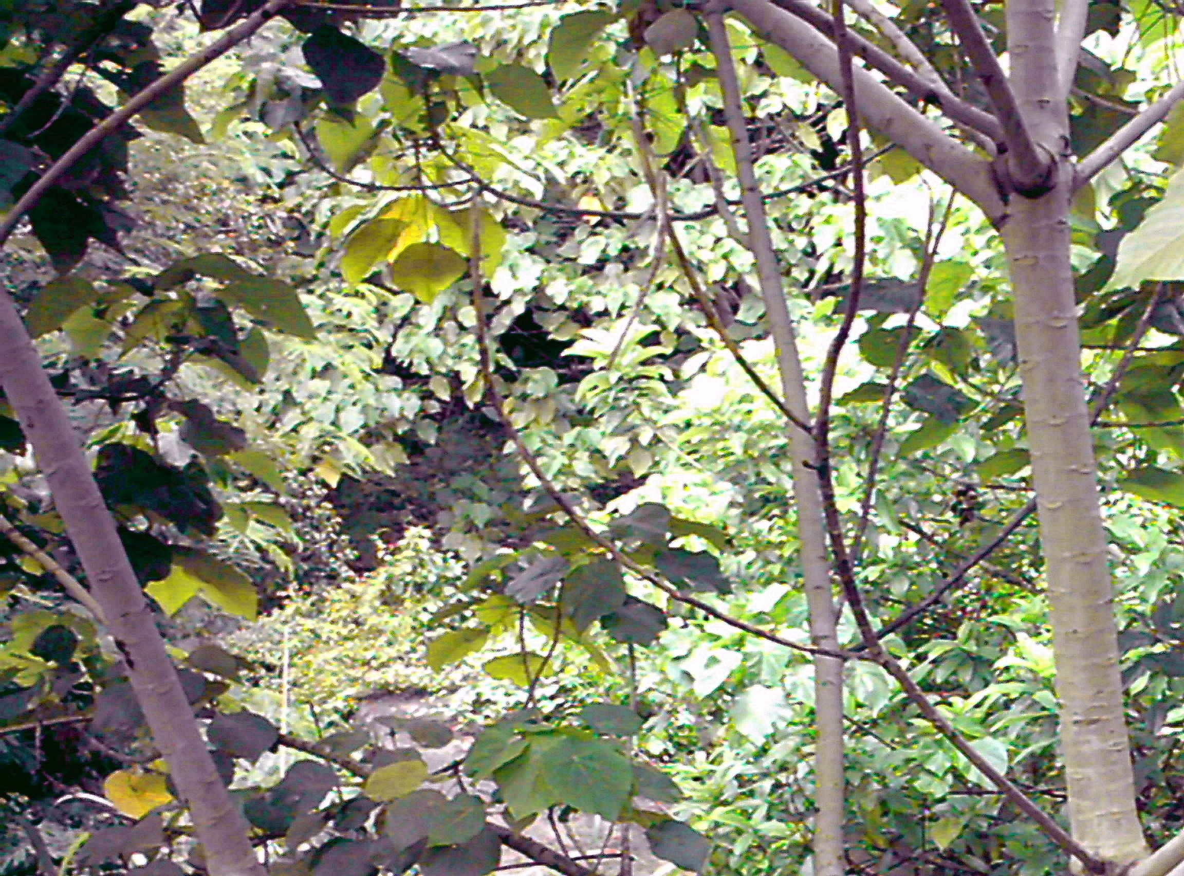 full of fortress, Lower Reservoir, Siu Sai Wu, Beacon Hill, Kowloon Tong, Hong Kong 中文（香港）: 香港，九龍塘，筆架山，小西湖，下遊蓄水池，被茂盛的叢林包圍著殘餘的水。